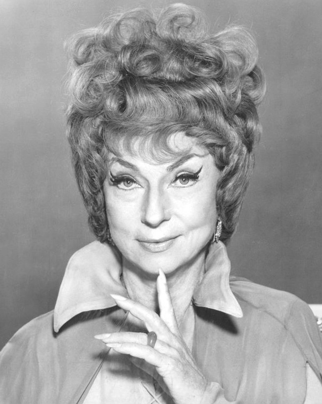 Publicity photo of Agnes Moorehead as Endora from the television program Bewitched.